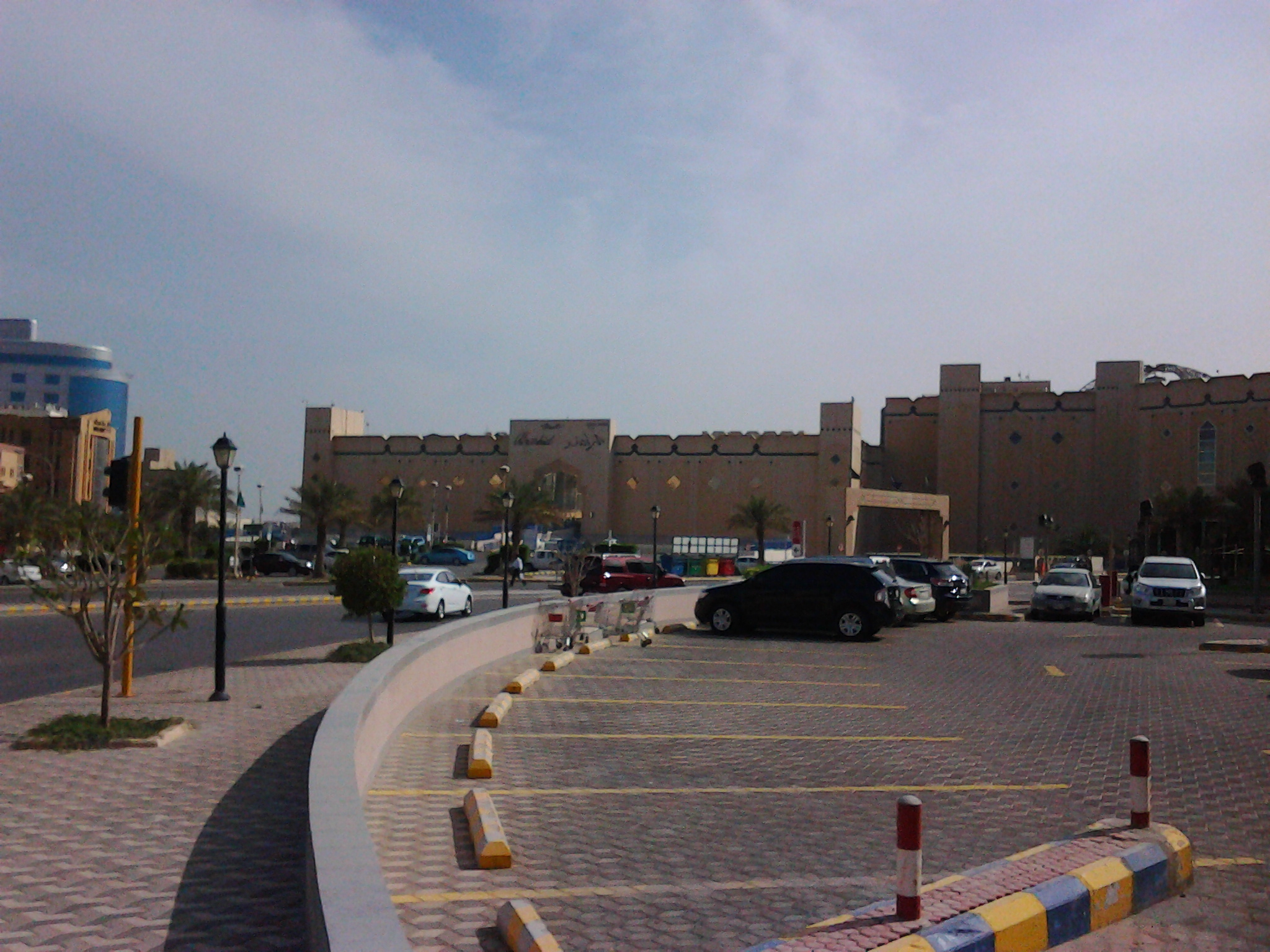 Al-Rashid Mall in Dhahran, KSA